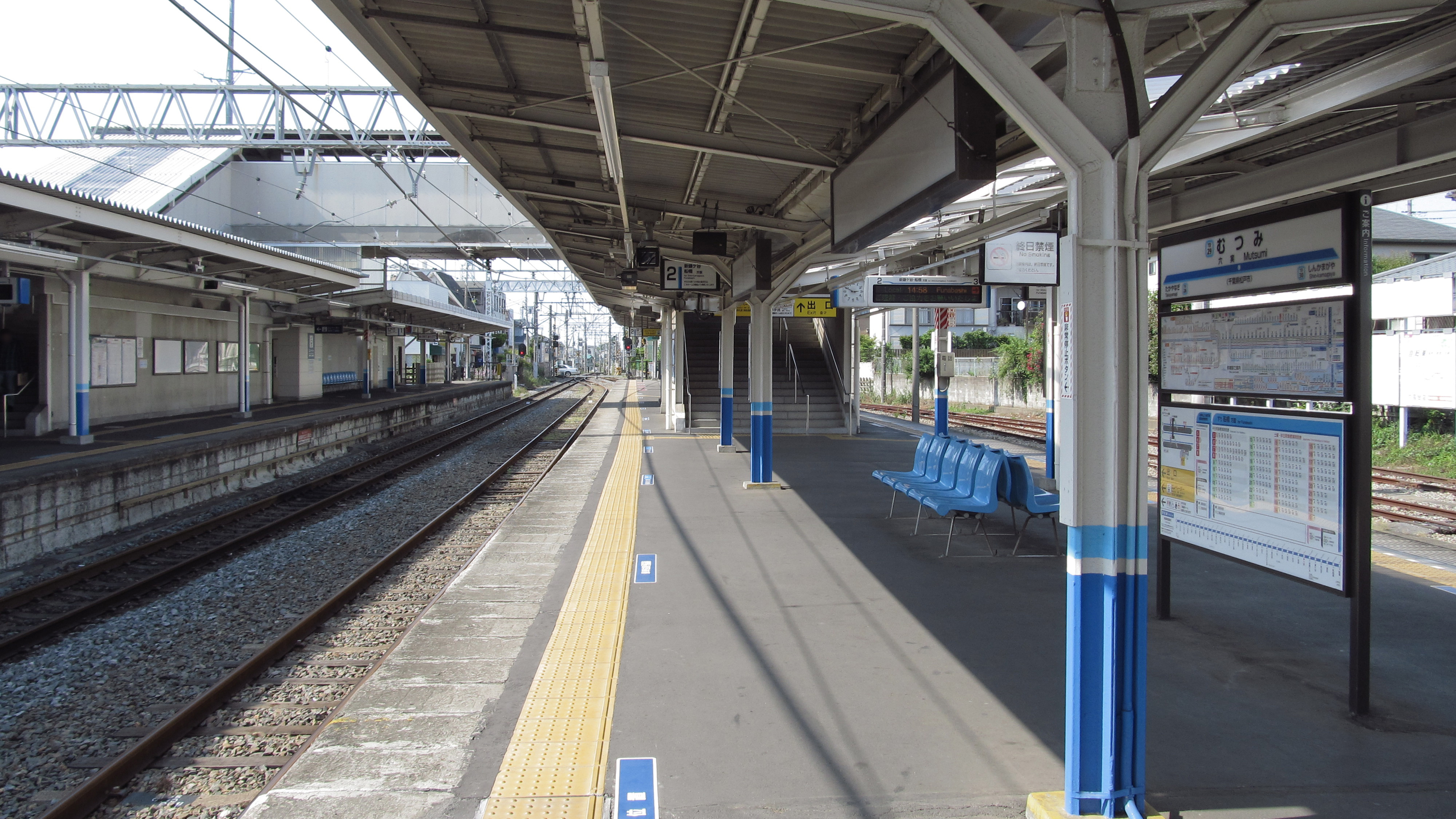 The platforms at Mutsumi Station on the Tōbu Urban Park Line(Noda Line) in Matsudo city, Chiba prefecture, Japan